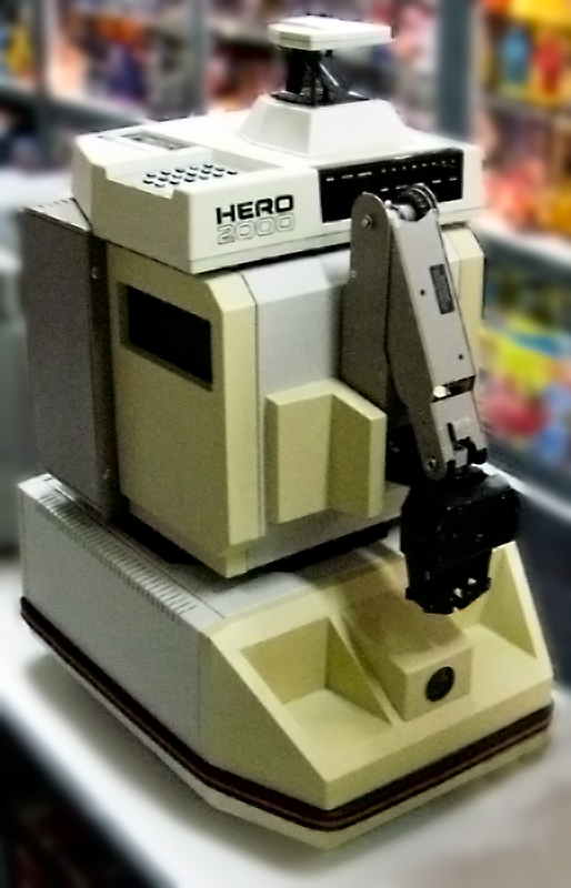 Heathkit Robot HERO 2000